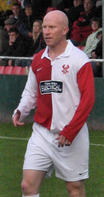 Lee Hughes